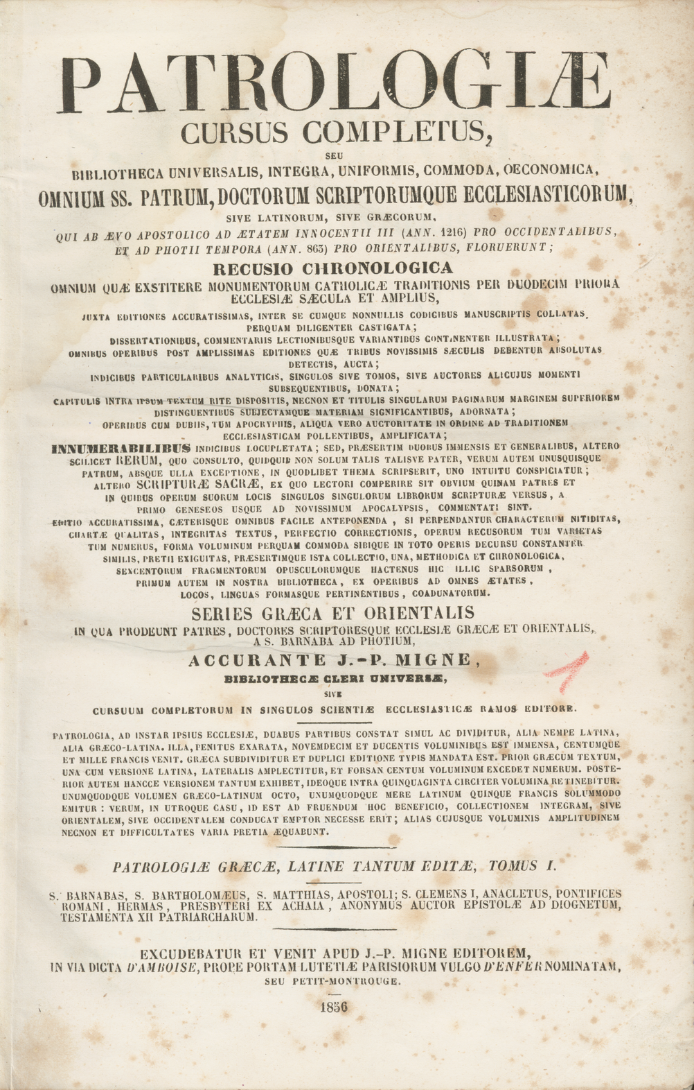 Title page of Patrologia Graeca Latine, Paris 1856